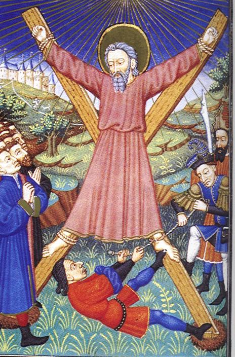 Martyrdom of Saint Andrew